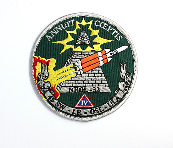 Launch patch of NROL-32